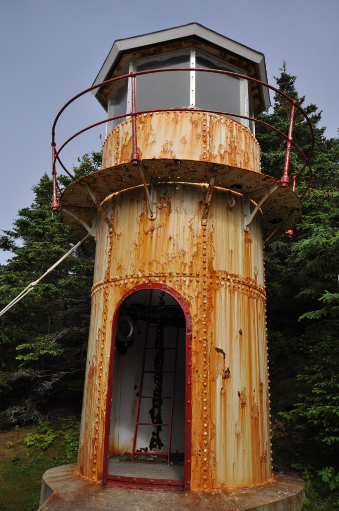 Cow Head Light, Cow Head, Newfoundland.